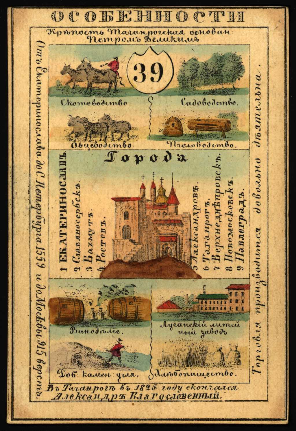 "This card is one of a souvenir set of 82 illustrated cards–one for each province of the Russian Empire as it existed in 1856. Each card presents an overview of a particular province’s culture, history, economy, and geography. The front of the card depicts such distinguishing features as rivers, mountains, major cities, and chief industries. The back of each card contains a map of the province, the provincial seal, information about the population, and a picture of the local costume of the inhabitants. Ekaterinoslav Province depicted on this card is in present-day Ukraine."